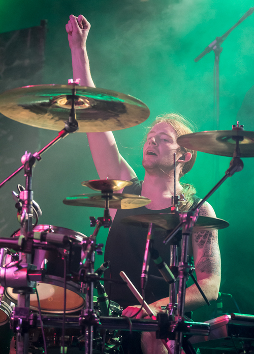 Bleed From Within's drummer Ali Richardson performing in Germany in 2013.